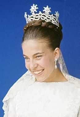 A crop that shows Princess Claude of Orléans on the day of her marriage to Prince Amedeo, Duke of Aosta in July 1964.